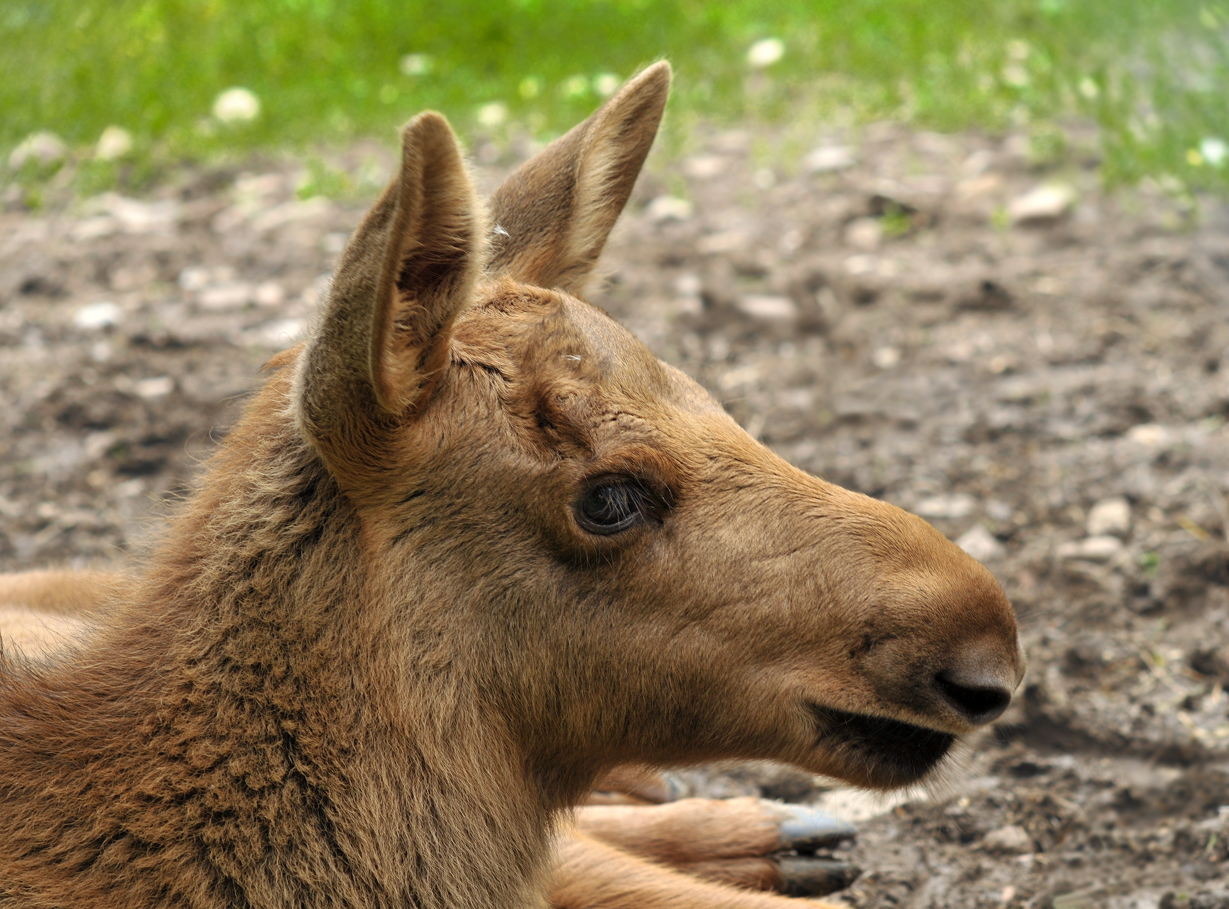 Moose (or Eurasian Elk) calf in the Wisentgehege Springe game park near Springe, Hanover, Germany